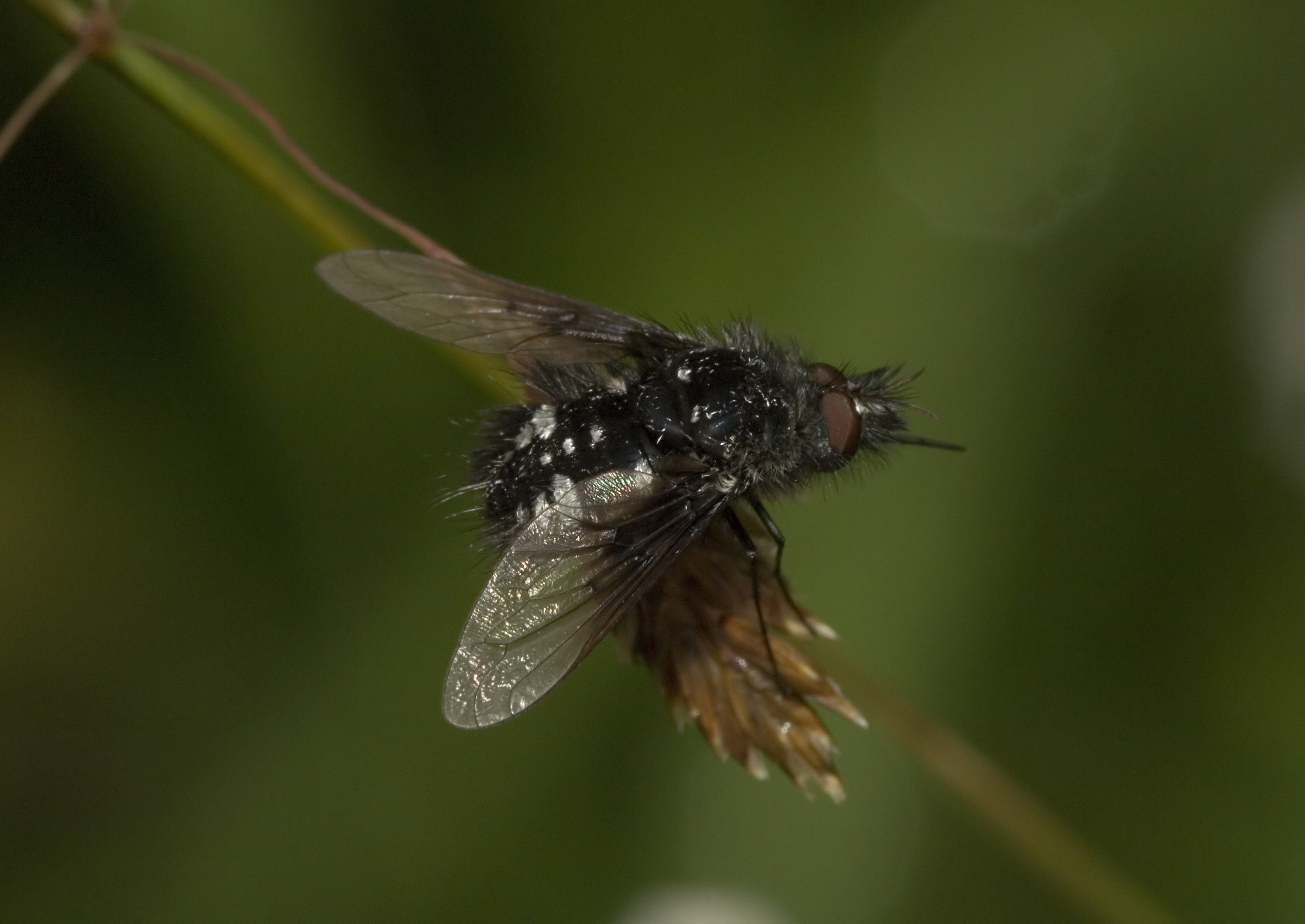 Bombylella atra Location: near Podgorje, Slovenia 8 EX DG APO IF Makro f/11 Film / Speed: ISO 400 Comment: identification